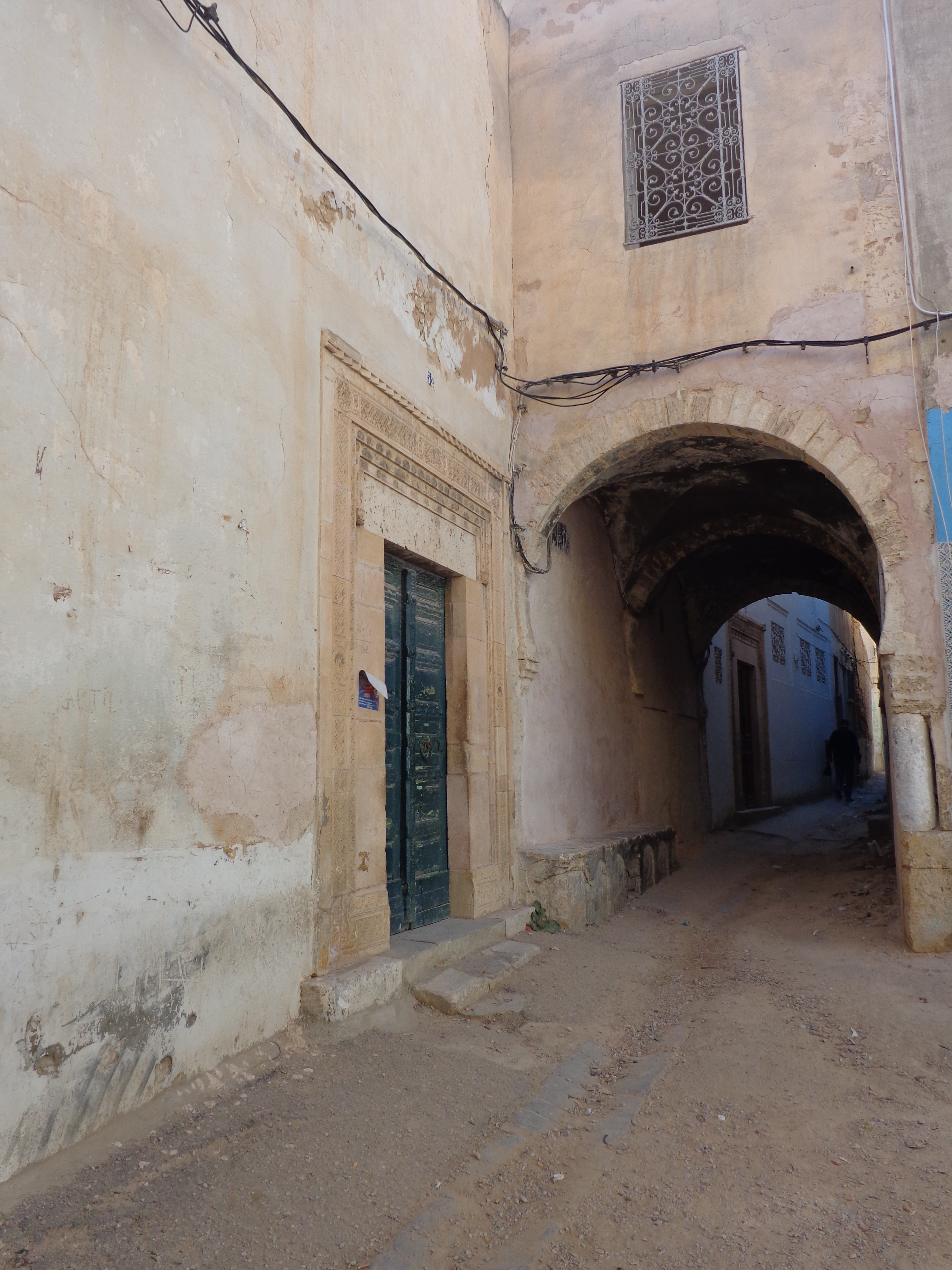 In front of Sidi Ali Ennouri Mosque in the Medina of Sfax